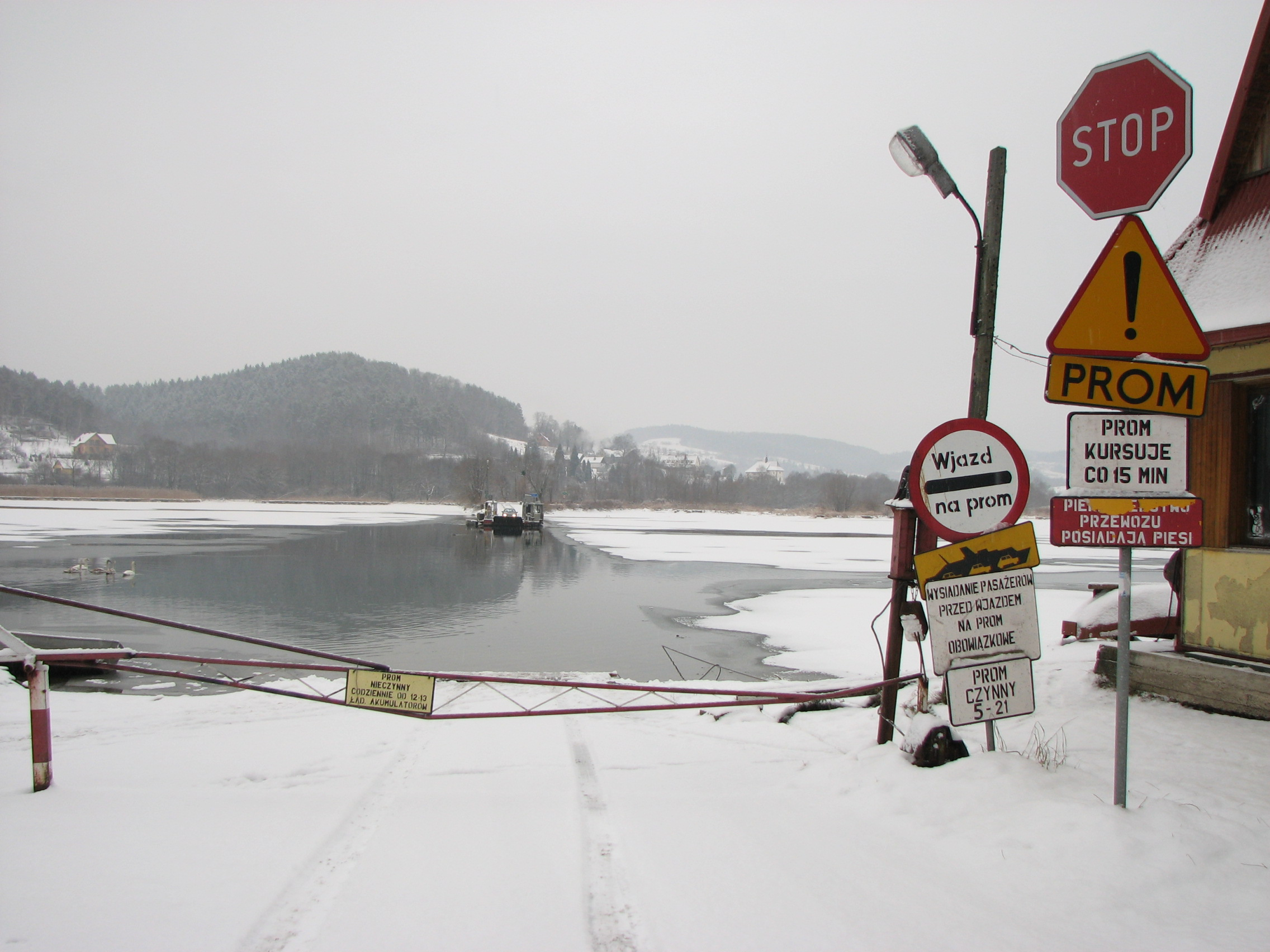 Ship at the river Dunajec between Wytrzyszczka and Tropie.